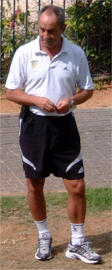 Osvaldo Ardiles at the Daniel Hotel in Herzliya, Israel the week he got sacked from Beitar Jerusalem F.C.